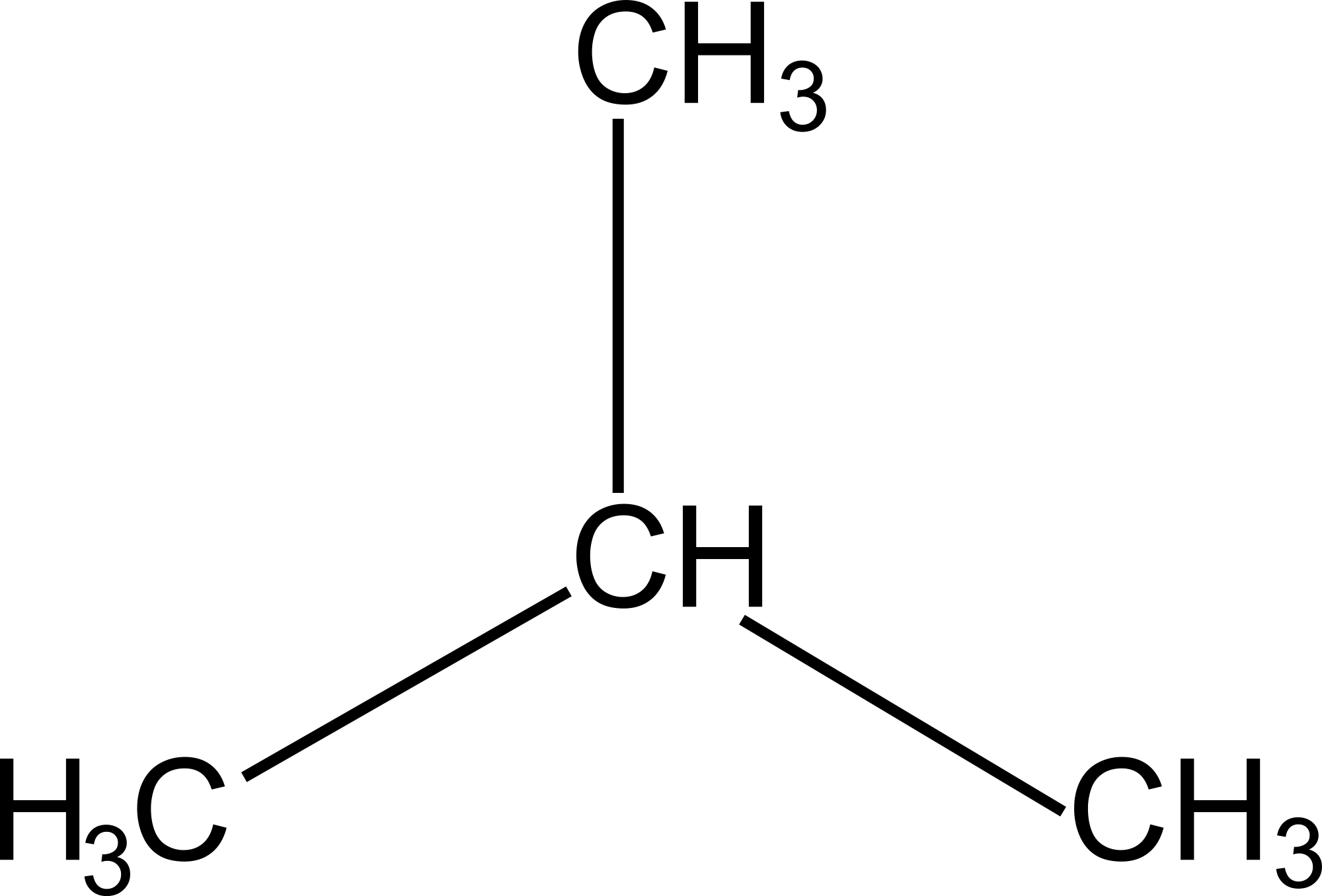 Isobutane